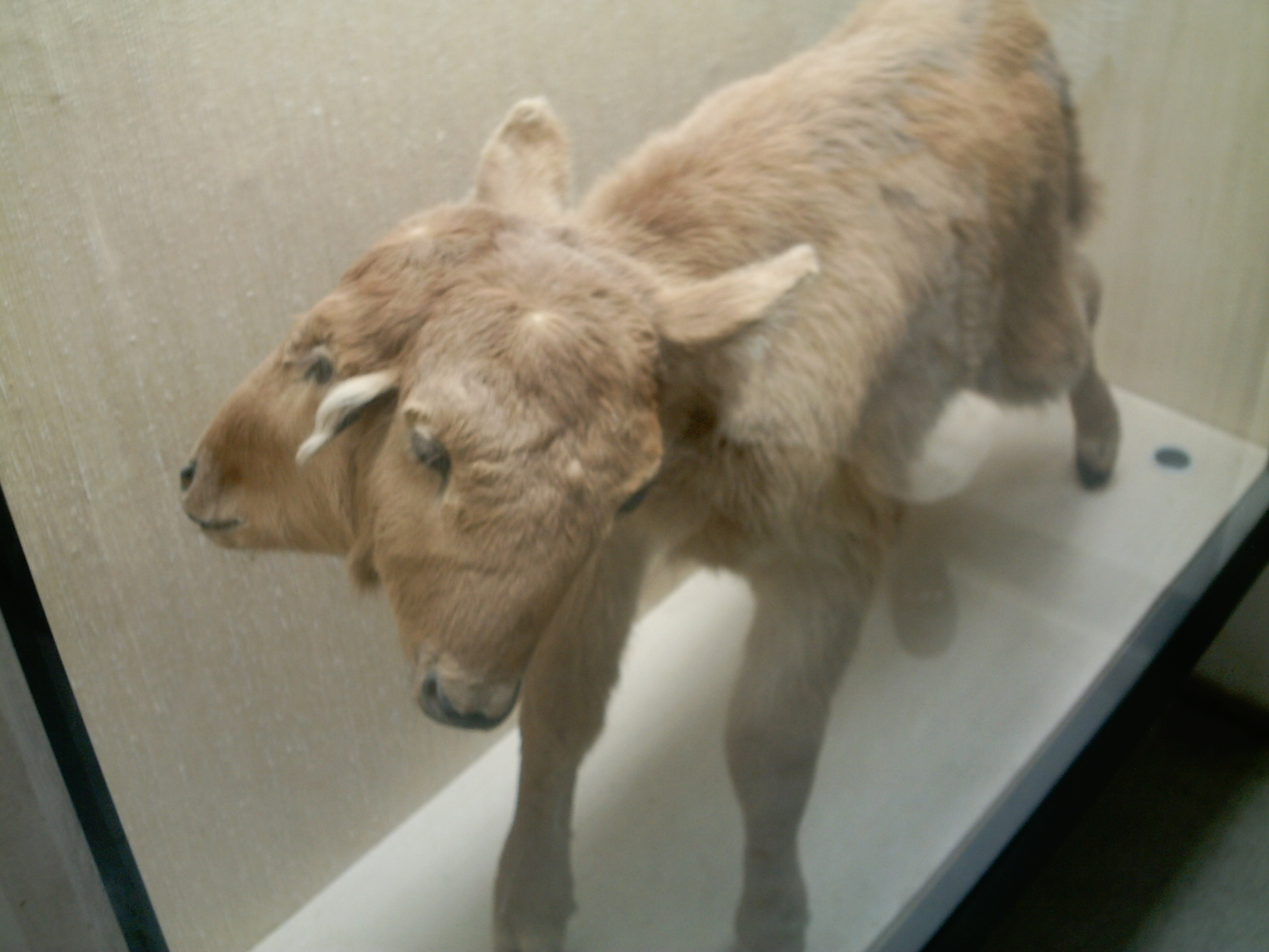 A stuffed two-headed calf